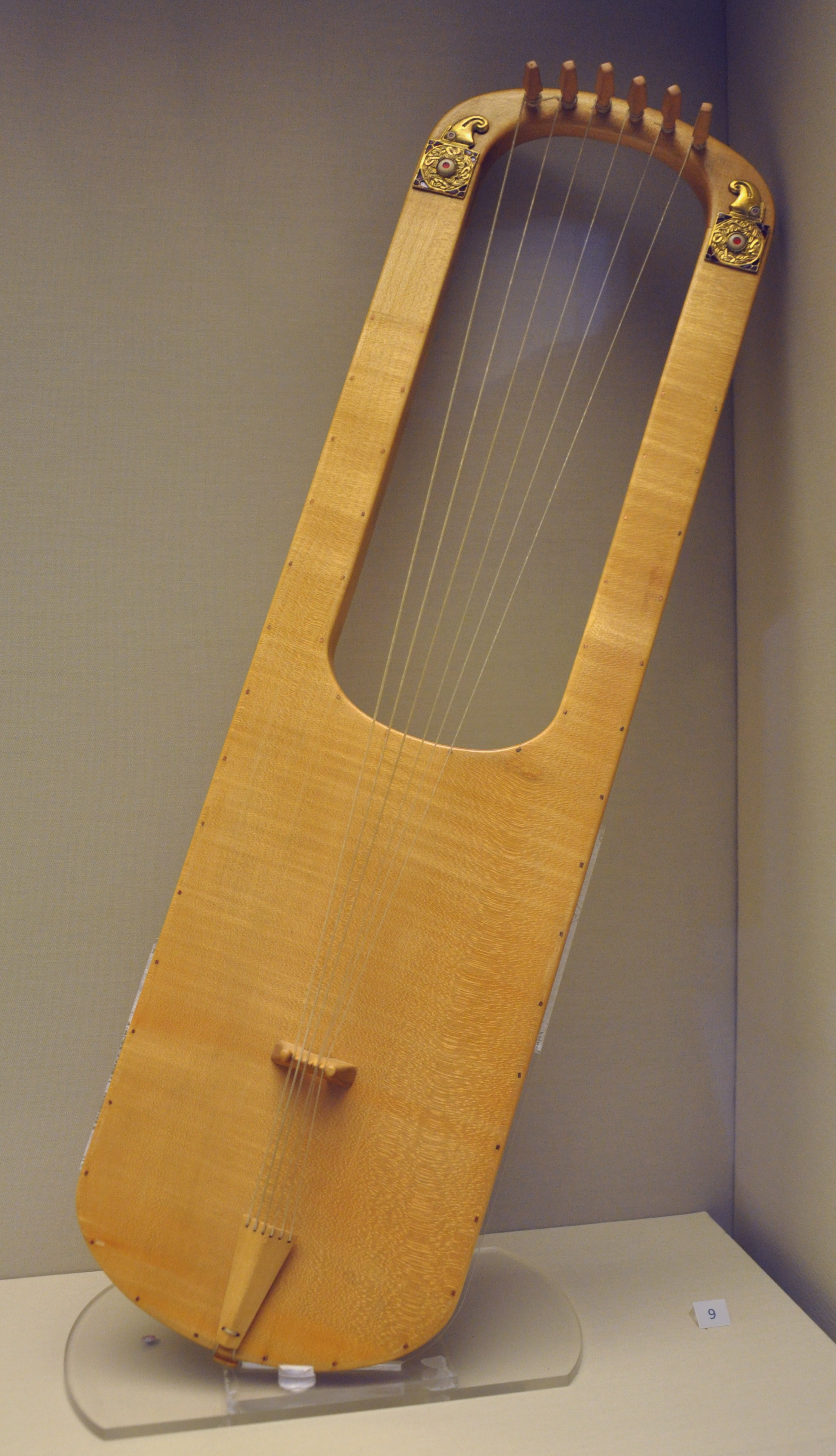 British Museum reference SHR.9 Detailed description Replica of the Sutton Hoo large lyre. Maplewood, with electrotyped fittings, bone bridge and gut strings. Size 74.5 x 21.0 cm Location Room 41